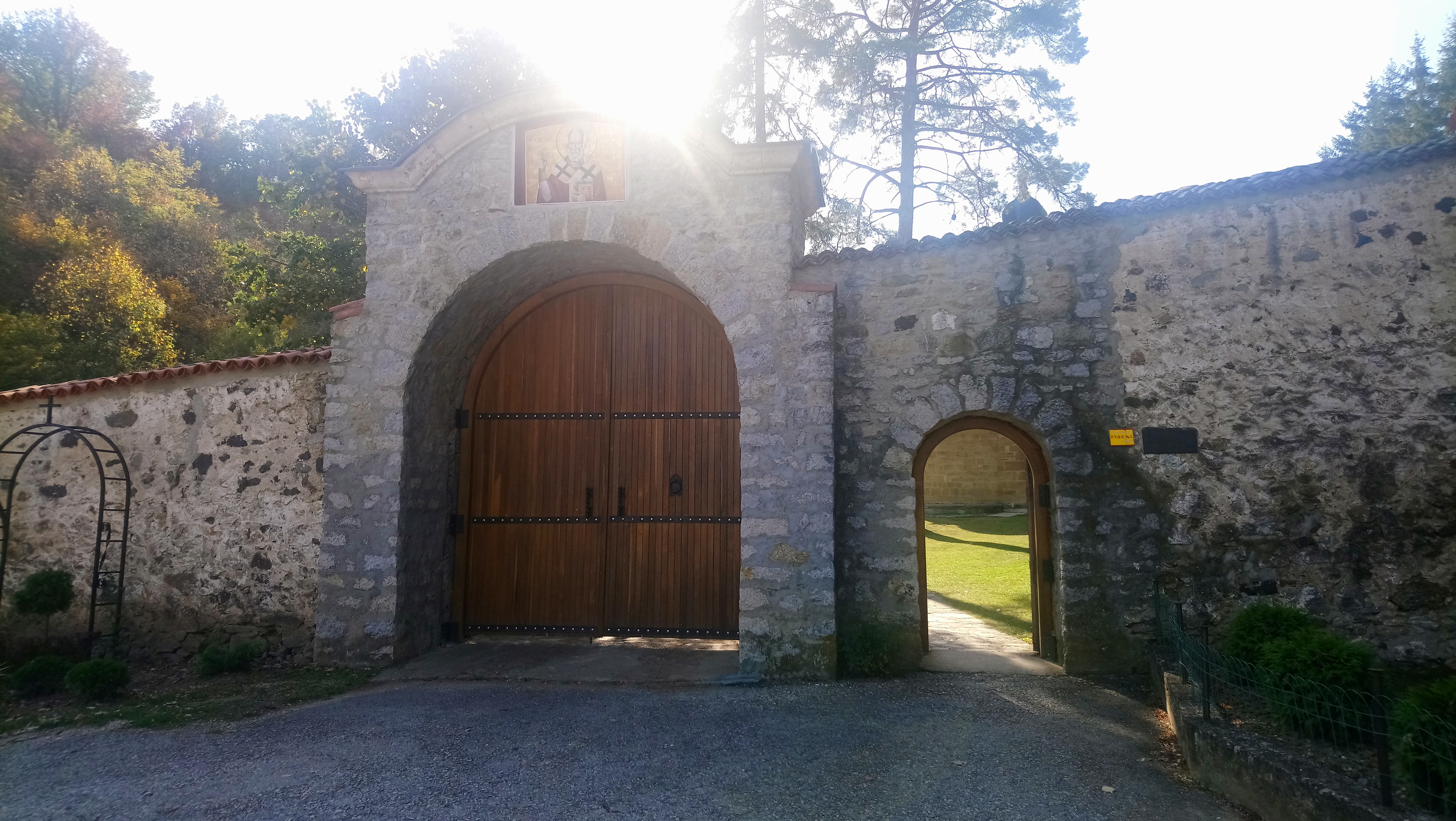 Monastery Drača, Serbia